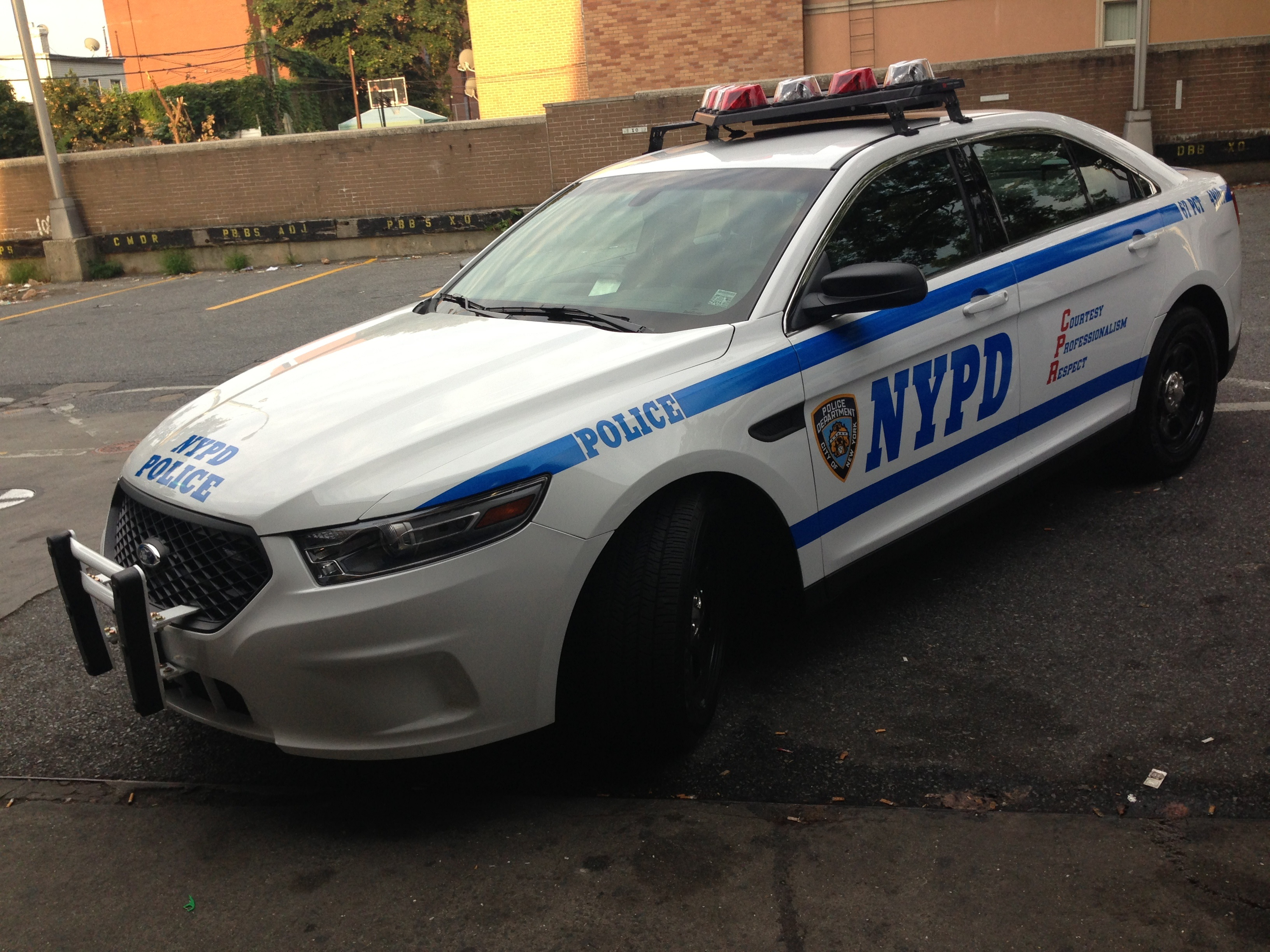 NYPD Ford Police Interceptor 2013